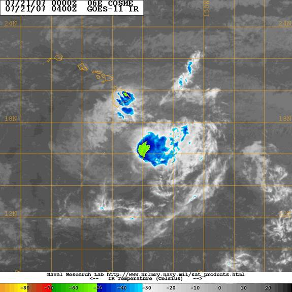 Flossie weakened to a tropical depression due to the very strong vertical wind shear. CPHC issued the final advisory on dissipating tropical depression Flossie during the early morning hours on 16 August.